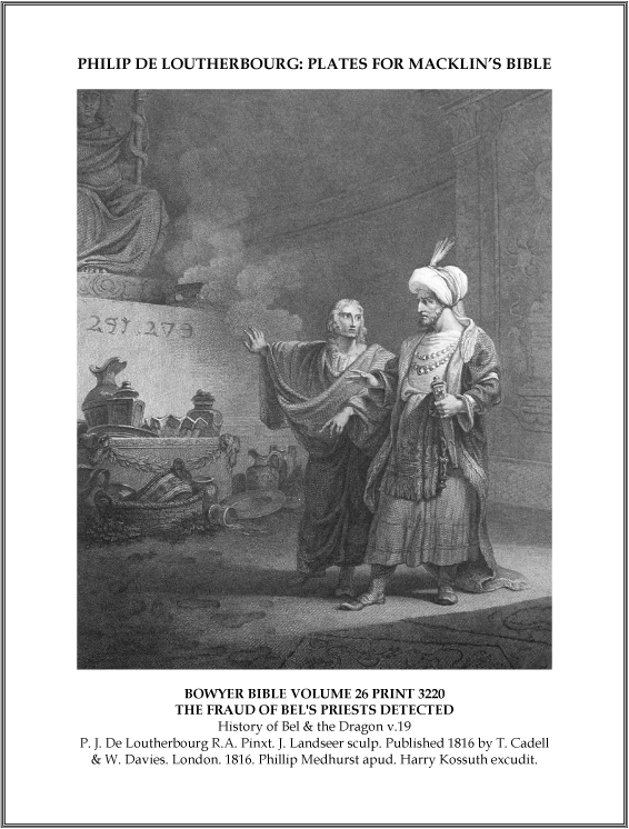 An engraved plate in the Macklin Bible (Cadell & Davies edition of the Apocrypha) after a specially-commissioned painting by Philippe De Loutherbourg. Photographed from the Bowyer bible, Bolton, England. 26.3220. The Fraud of Bel's Priests Detected. Daniel standing beside the King, holding his hand out towards the foot of a statue of Bel, and the baskets and plates empty of food placed before it (History of Bel & the Dragon, v.19). 1816. Inscriptions: Lettered below image with title, text reference, production detail: "P. J. De Loutherbourg R.A. Pinxt.", "I. Landseer sculp. Engraver to the King" and publication line: "London, Published Feby. 20 1816, by T. Cadell & W. Davies Strand". Print made by John Landseer. Dimensions: Height: 490 millimetres; width: 385 millimetres.